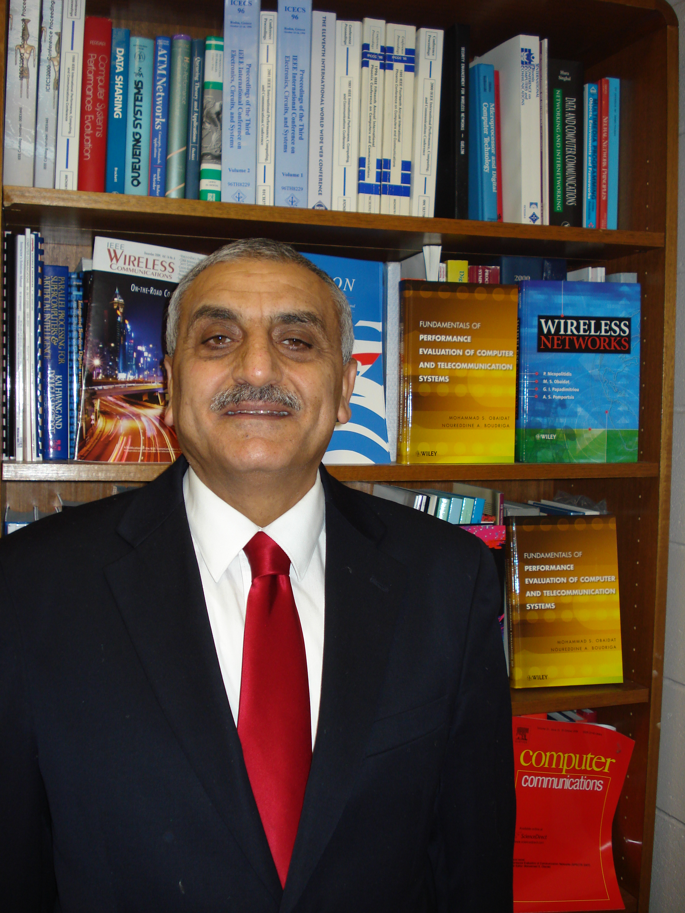 This is Picture of Professor Mohammad S.Obaidat